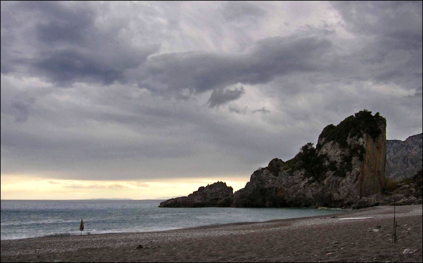 CHiliadou beach in Euboea